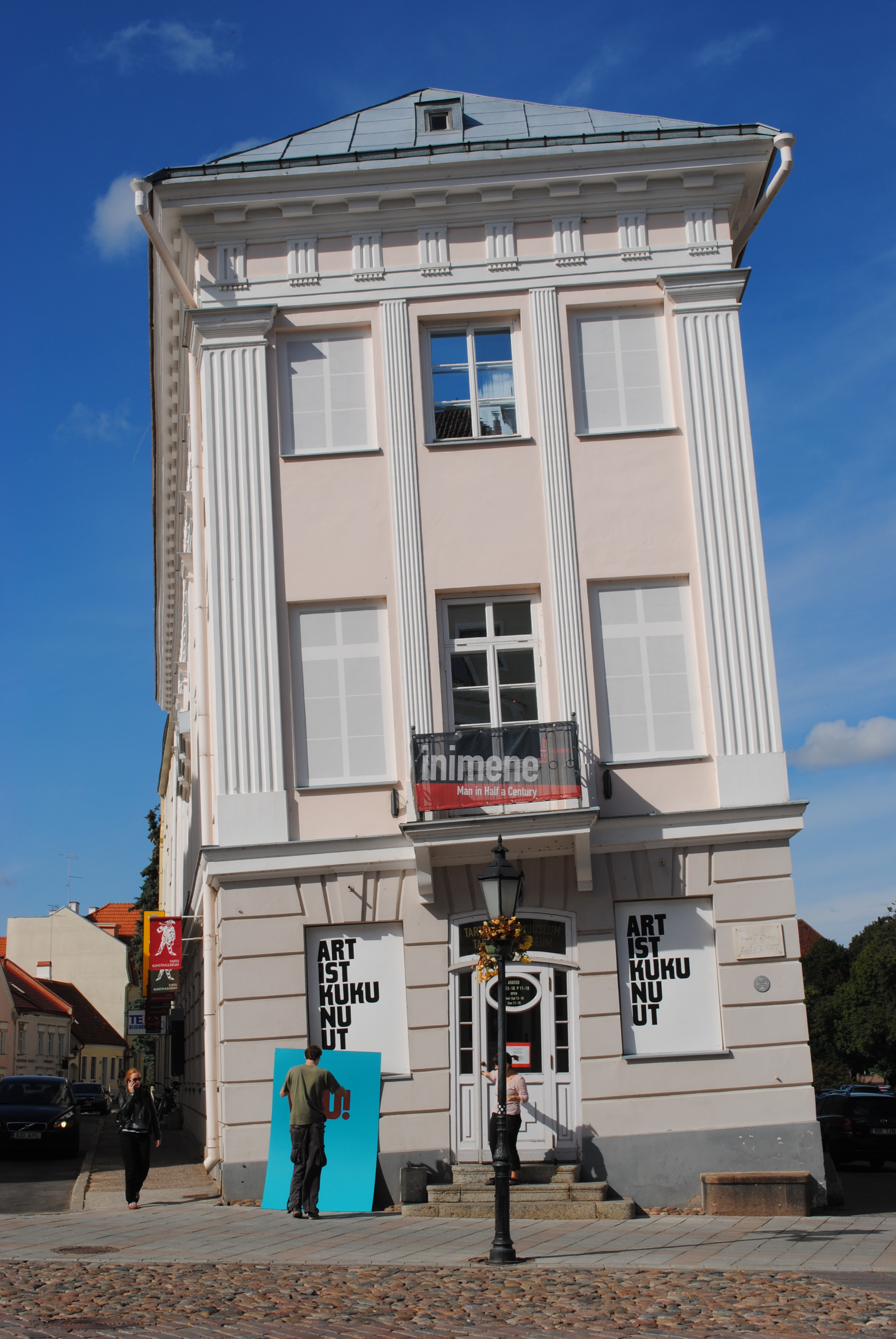 Tartu Museum of Art, Raekoja plats 18.